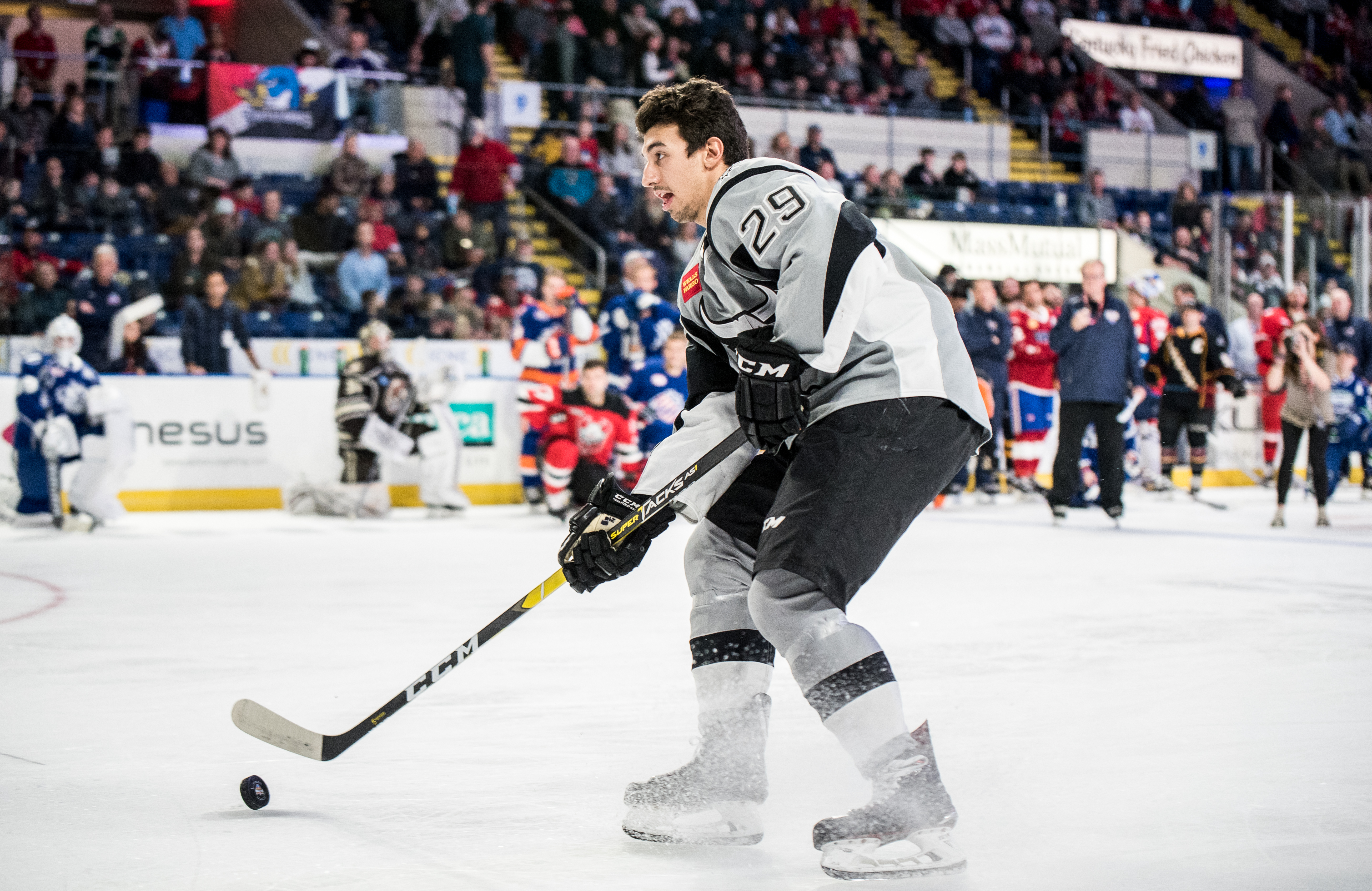 Photo by: China Wong